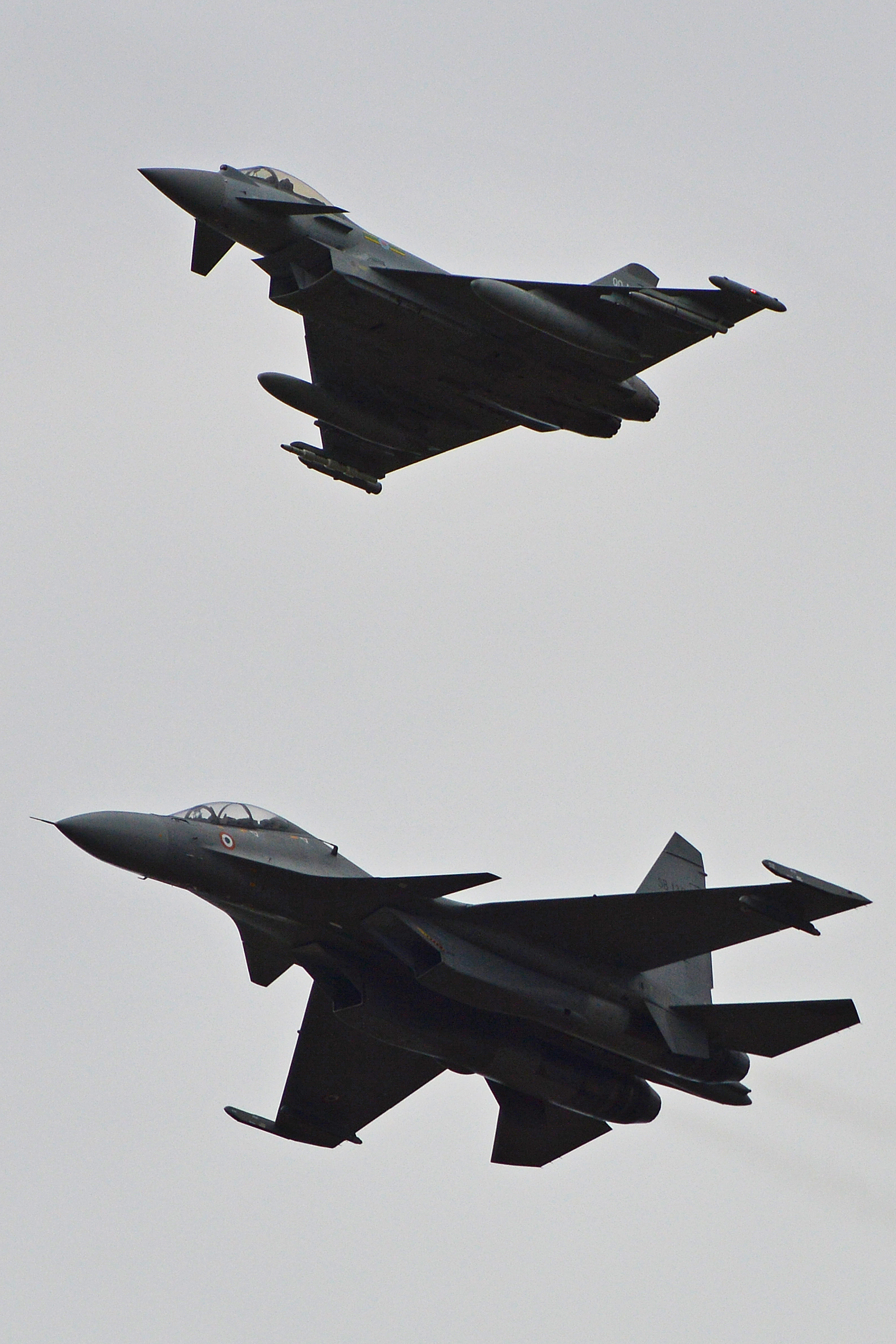 A fascinating formation during Operation Indradhanush IV. A Sukhoi Su-30MKI-3 of 2sqn, Indian Air Force, flies with a Typhoon FGR4 of 3sqn RAF. The Su-30 is 'SB138', the Typhoon is 'ZJ920 / QO-A'. RAF Coningsby, Lincolnshire, UK. 29-7-2015